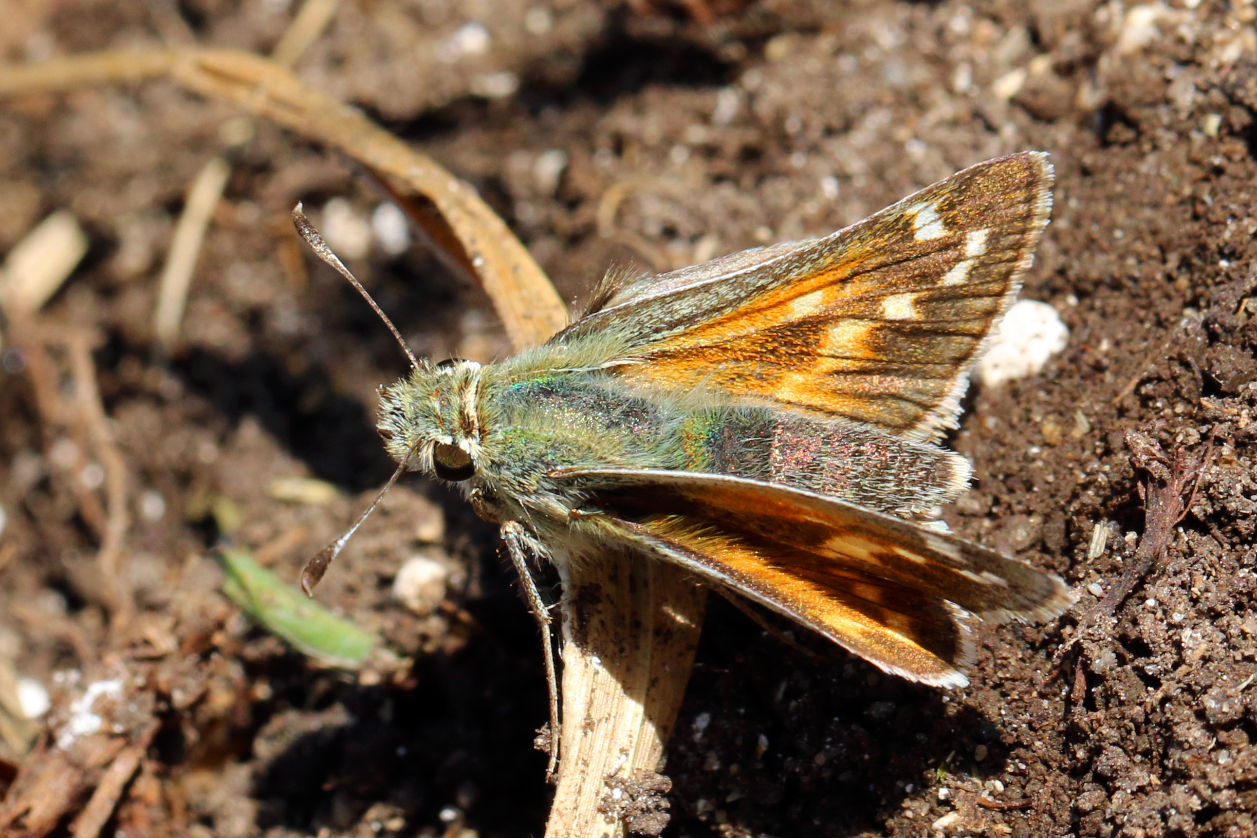 Silver-spotted skipper butterfly (Hesperia comma) female